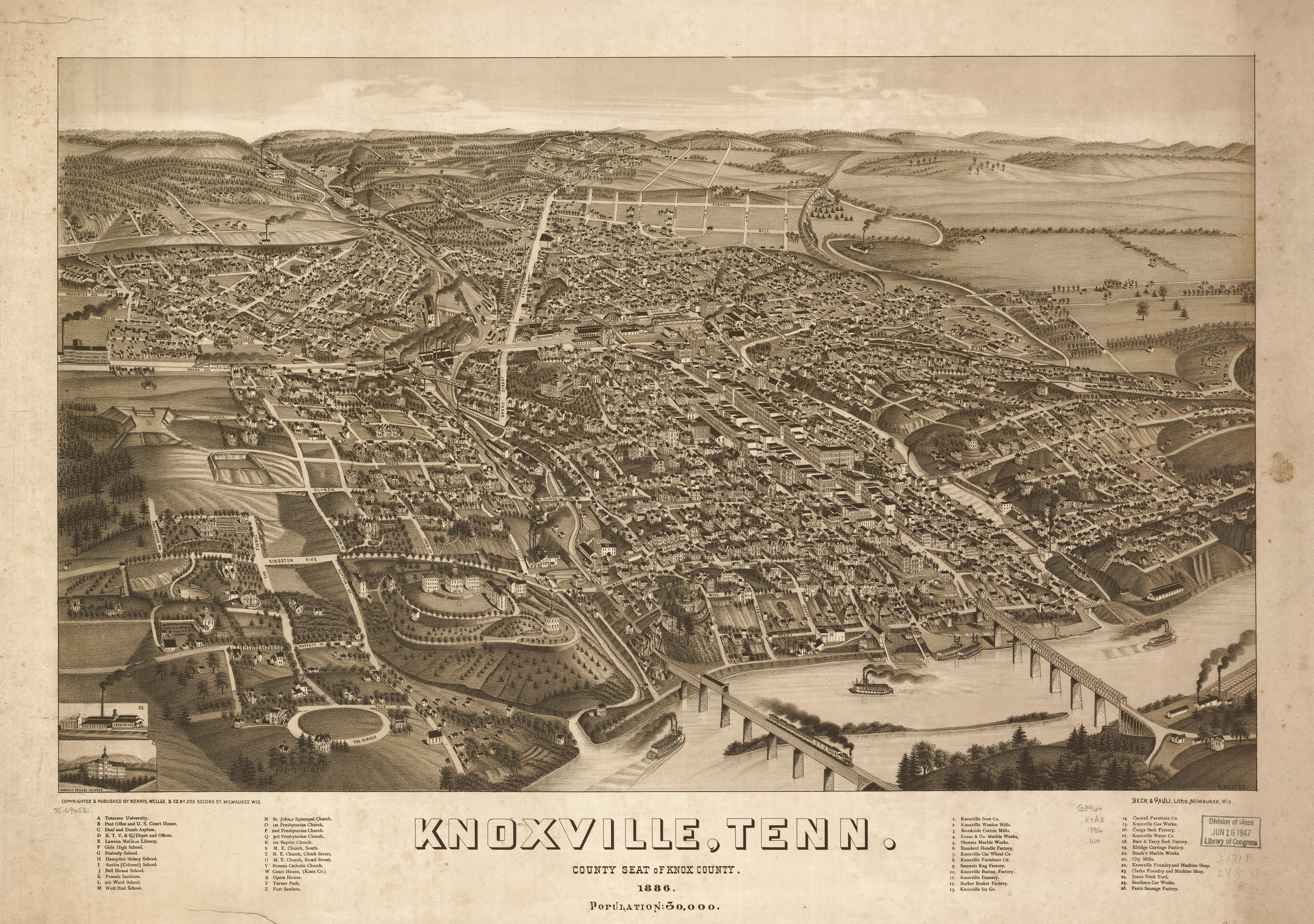 "Knoxville, Tenn., County Seat of Knox County, 1886," a bird's eye view of Knoxville, Tennessee, USA, as drawn in 1886.